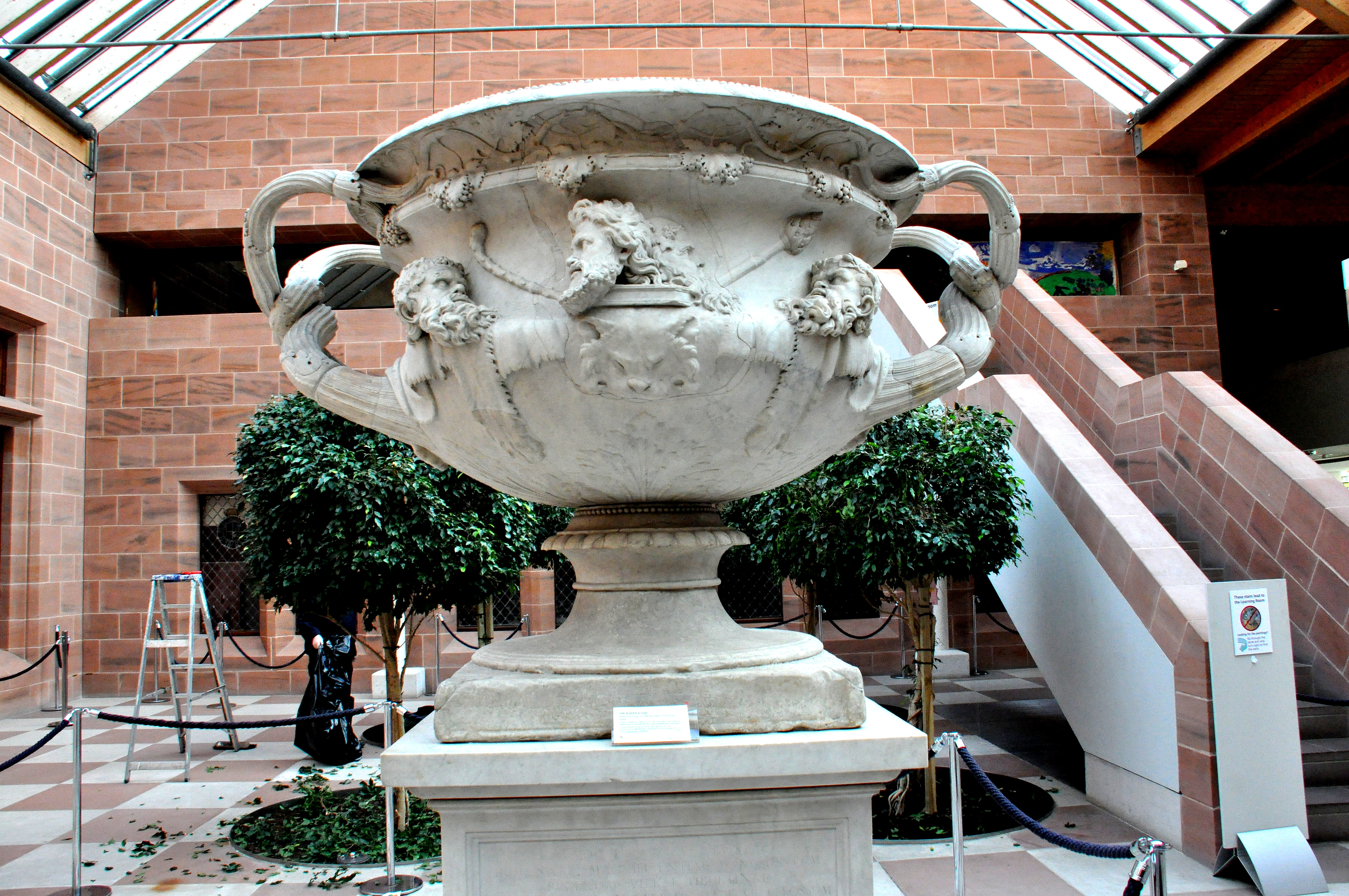 The Warwick Vase. From Hadrian's Villa at Tivoli. 2nd century CE. 18th century reconstruction.. The Burrell Collection, Glasgow, UK. Piranesi and the sculptor Bartolomeo Cavaceppi probably did the restoration. NB: Acquired by the Trustees of the Burrell Collection, with assistance of the National Art-Collection Fund, the Scottish Heritage Fund, and anonymous donations.